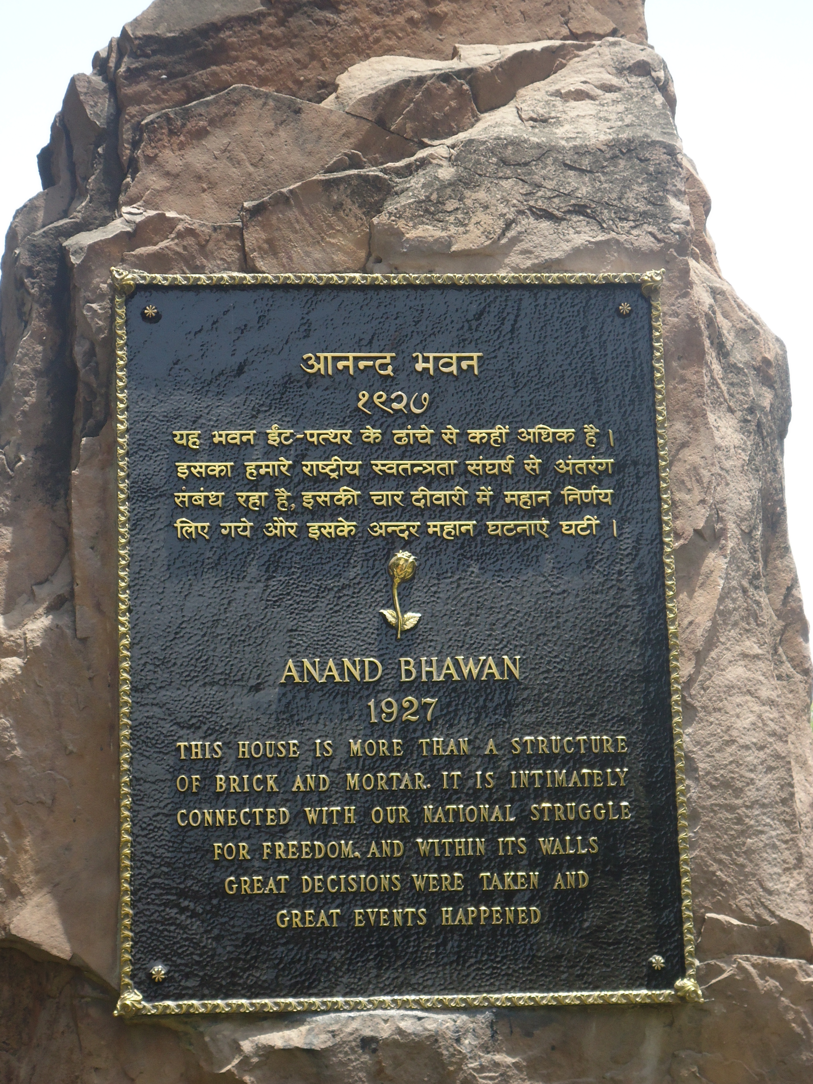 A PIC TAKEN AT THE ENTERANCE OF BHAWAN